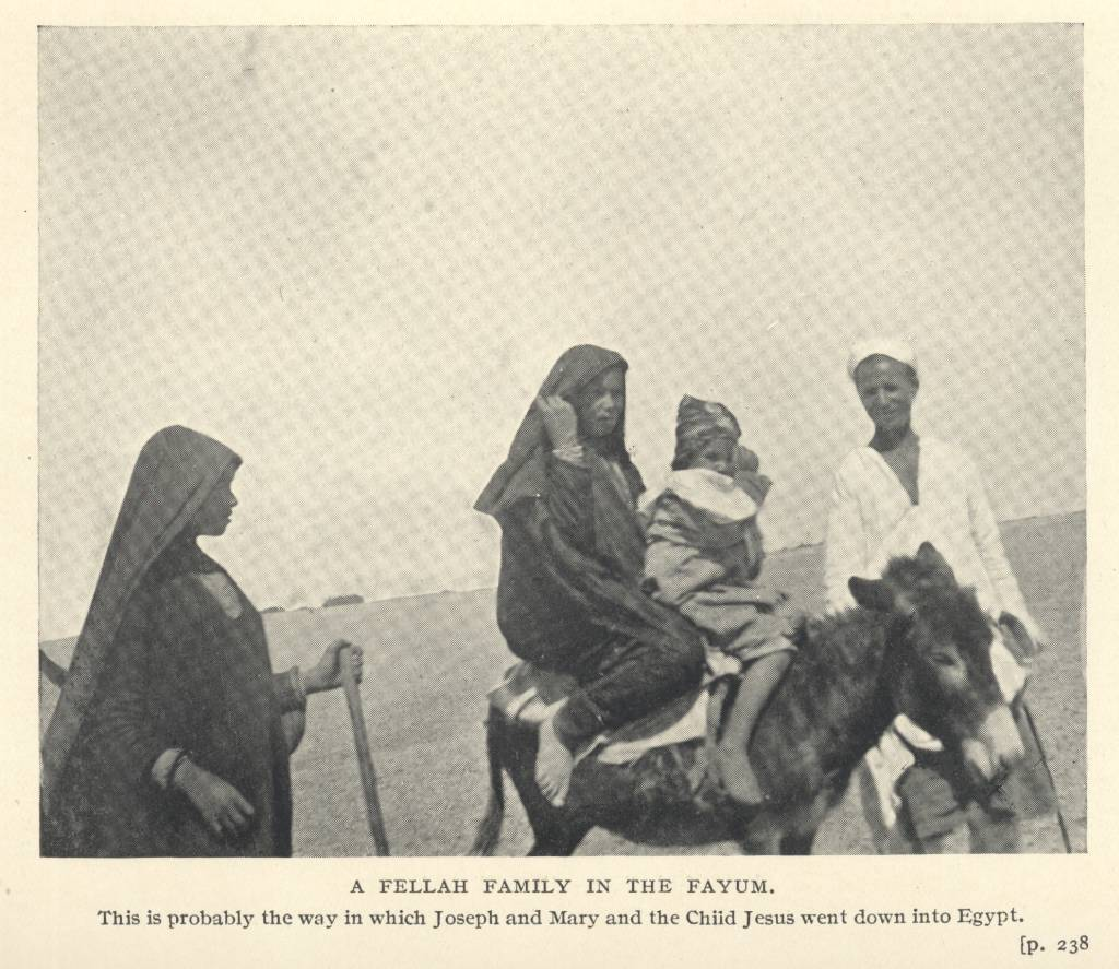 A woman and child sit atop a donkey. A figure on each side flanks the donkey. The landscape behind them is barren.